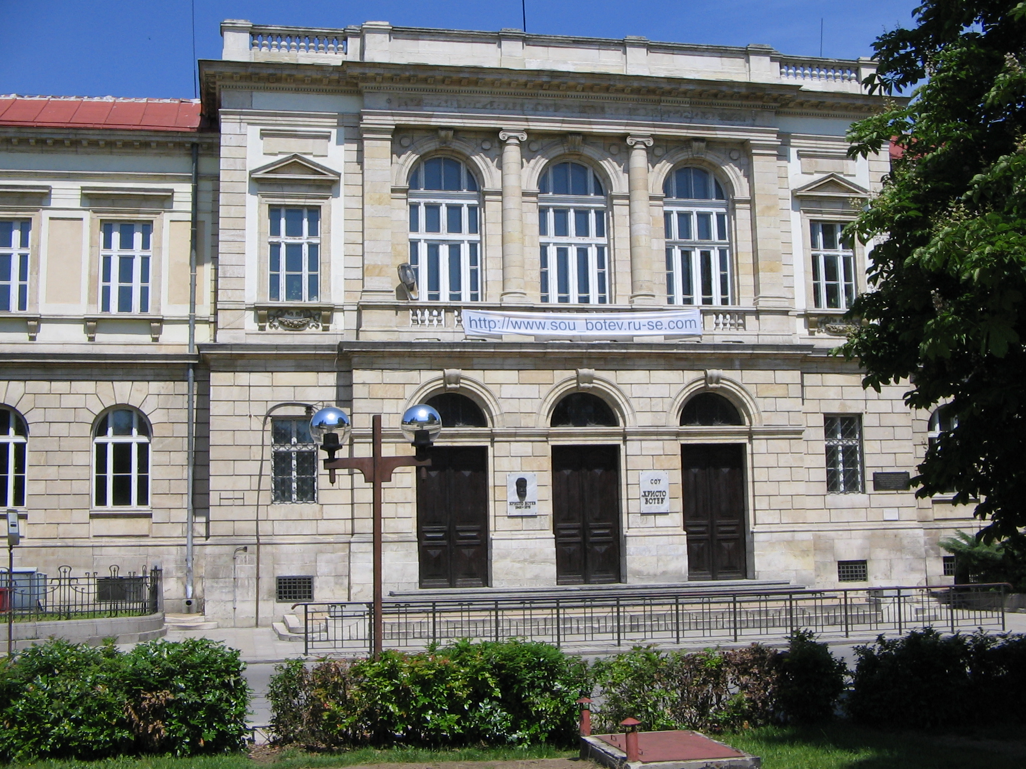 Secondary school "Hristo Botev", Rousse, Bulgaria